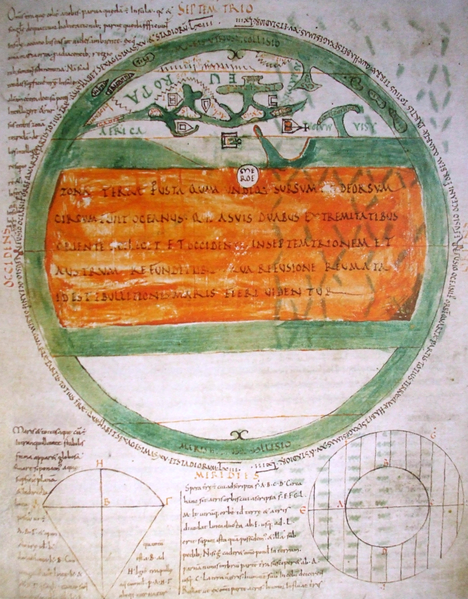 Mappemonde Fleury